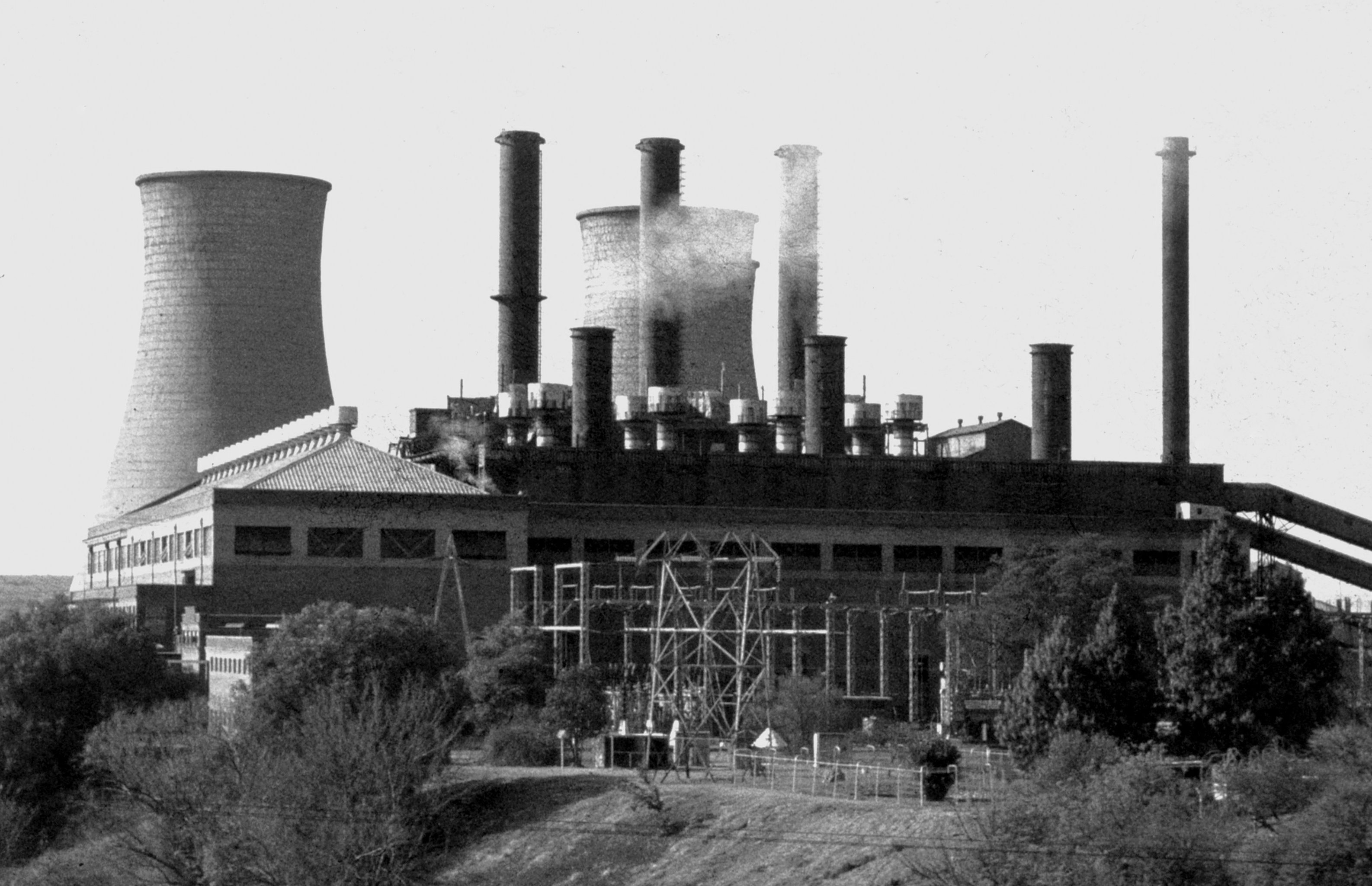 View of Colenso Power Station taken from the railway bridge over the Tugela River in the 1970's. The power station was built in the 1920s and decommissioned in 1985. This photo was digitised in 2014 after the power station had been demolished. The river bank is on the left of the picture, the cooling towers in the background, the transformer yard in the foreground and the coal conveyor belts on the right-hand side of the picture.